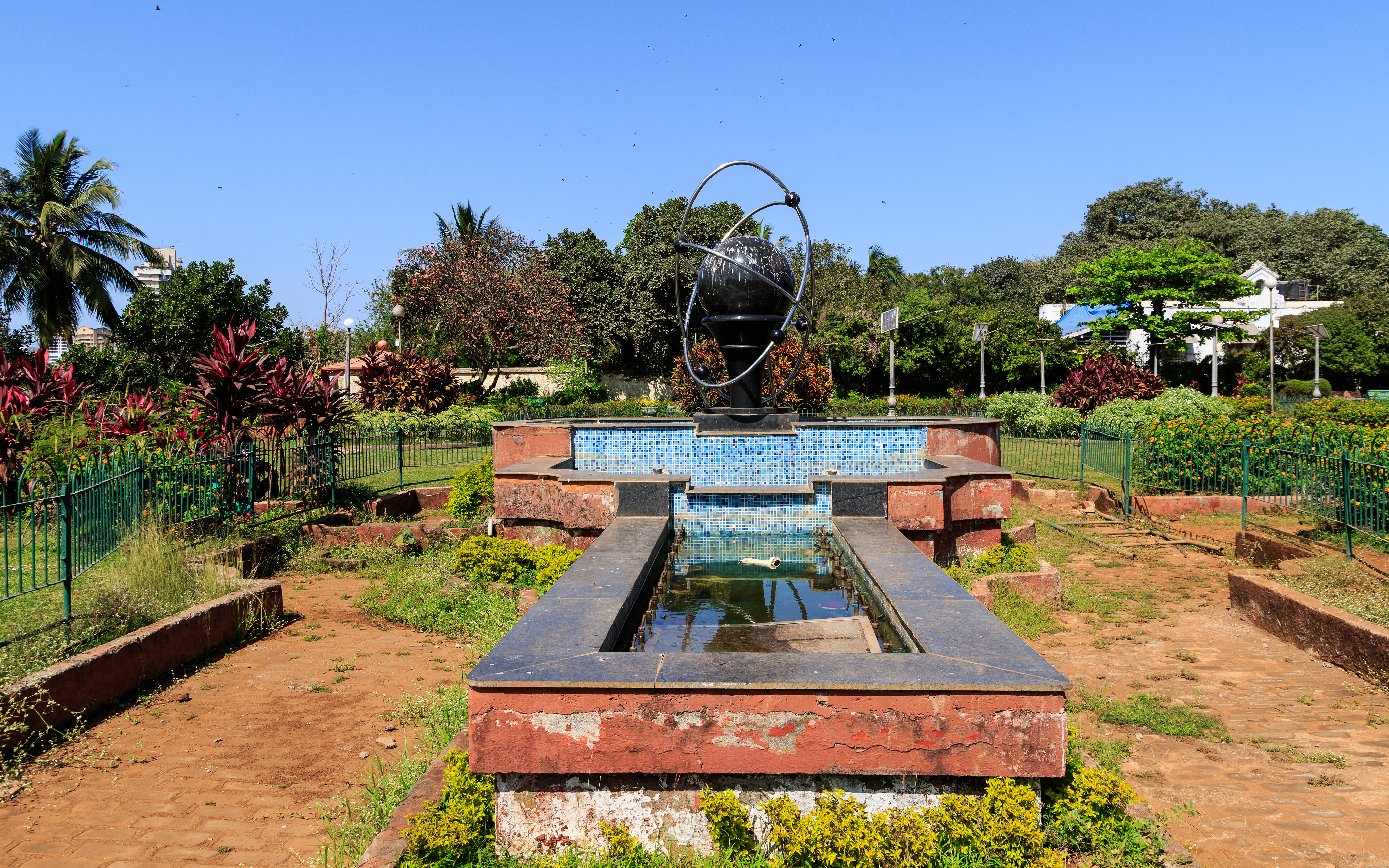 The Hanging Gardens on Malabar Hill in Mumbai, India